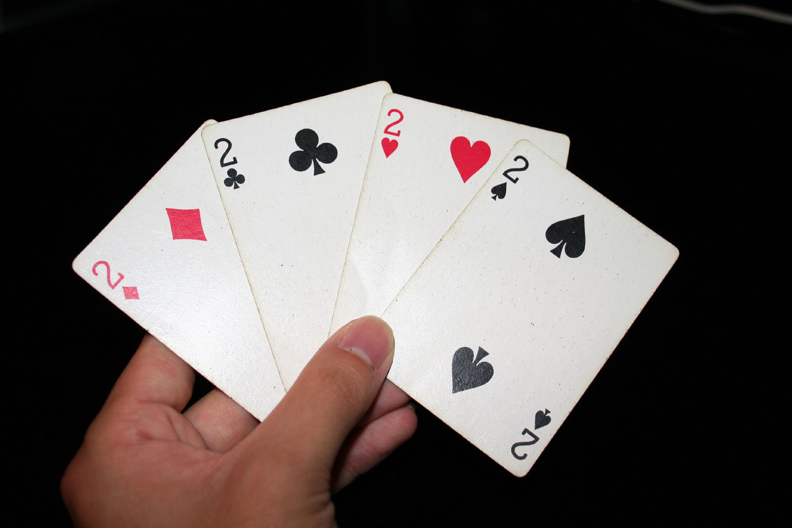 A hand holding the four 2's in a standard deck of cards: Diamonds, Clubs, Hearts, Spades.